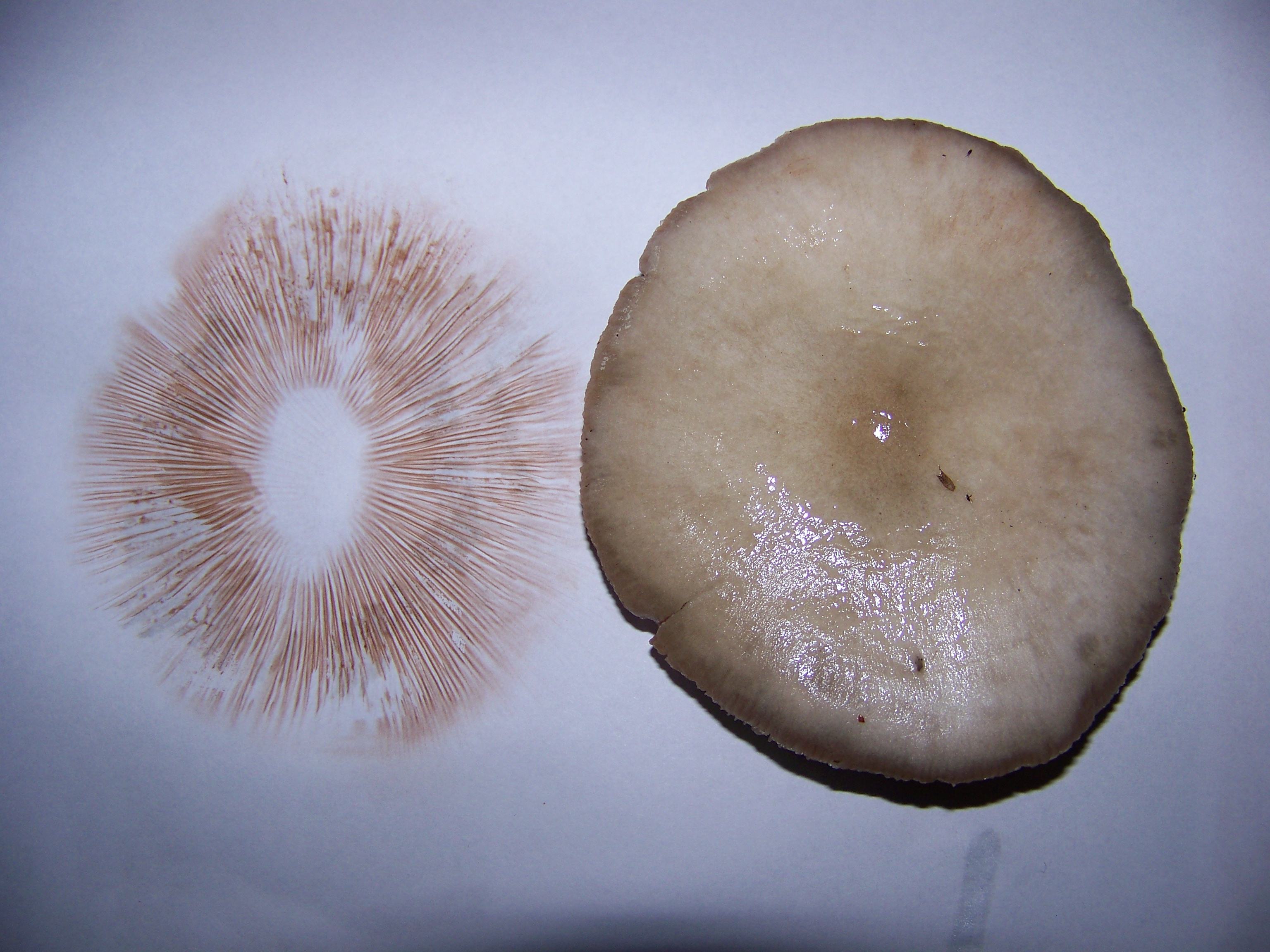 Volvariella gloiocephala cap and spore print.